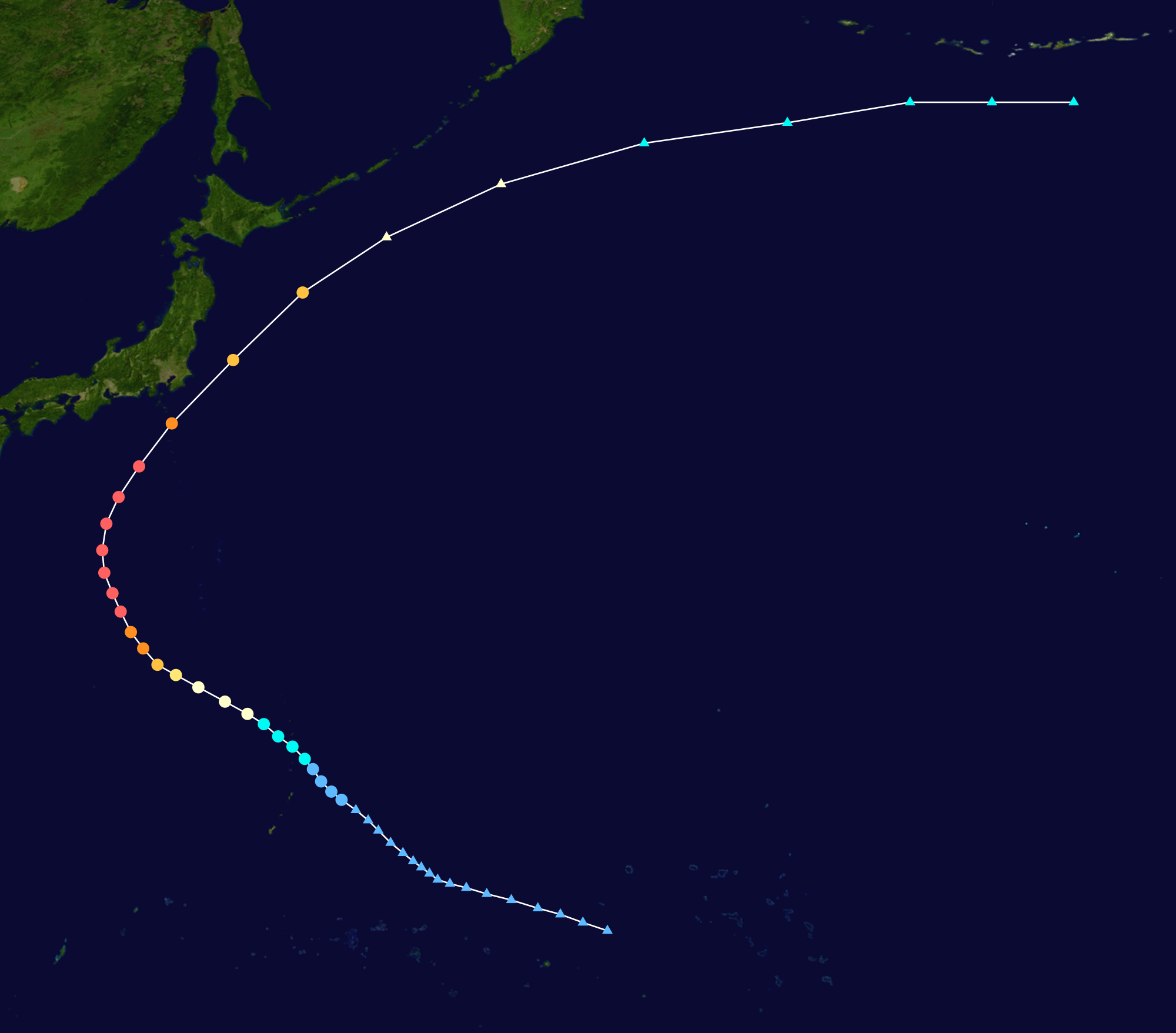 Typhoon Oscar 1995 track. Uses the color scheme from the Saffir-Simpson Hurricane Scale.